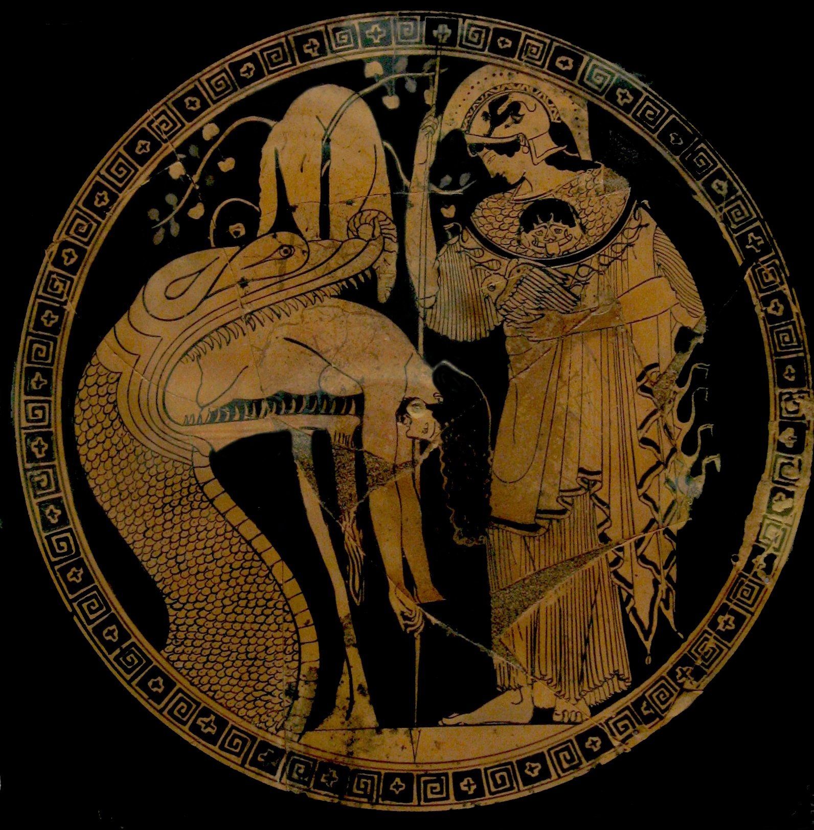 Jason being regurgitated by the snake who keeps the Golden Fleece (center, hanging on the tree); Athena stands to the right. Red-figured cup by Douris, c. 480-470 BC. From Cerveteri (Etruria)